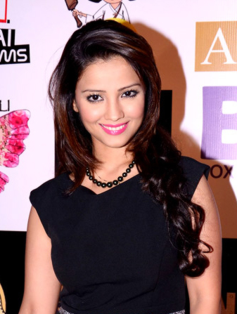 Adaa Khan at the success party of Box Cricket League in May 2014.